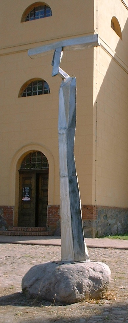 Parzival I (by Matthias Zágon Hohl-Stein) in front of the church in Temnitzquell-Netzeband in Brandenburg, Germany